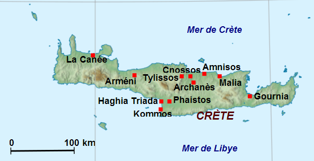 Map of the main archaeological sites of Mycenaean Crete (Late Minoan period III).